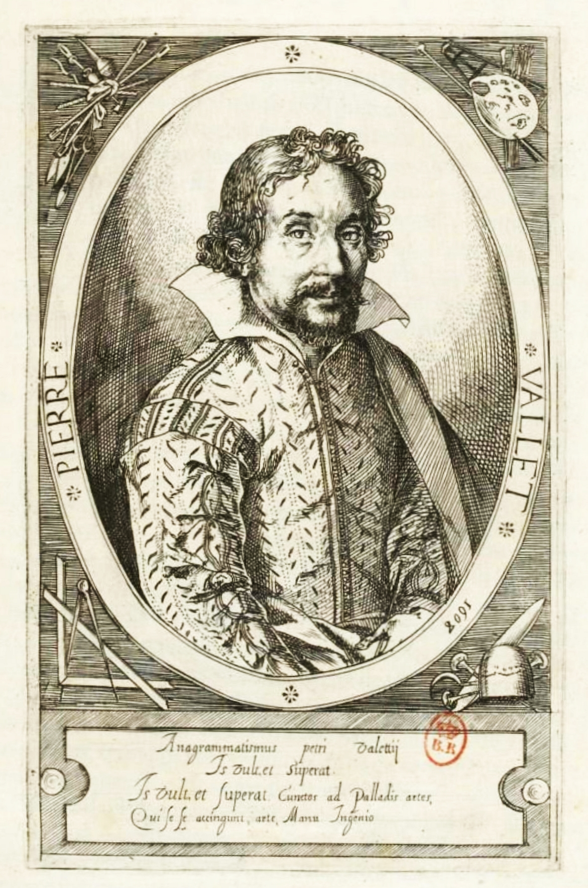 Portrait of Pierre Vallet, published in 1608 in Jardin du roy tres chrestien